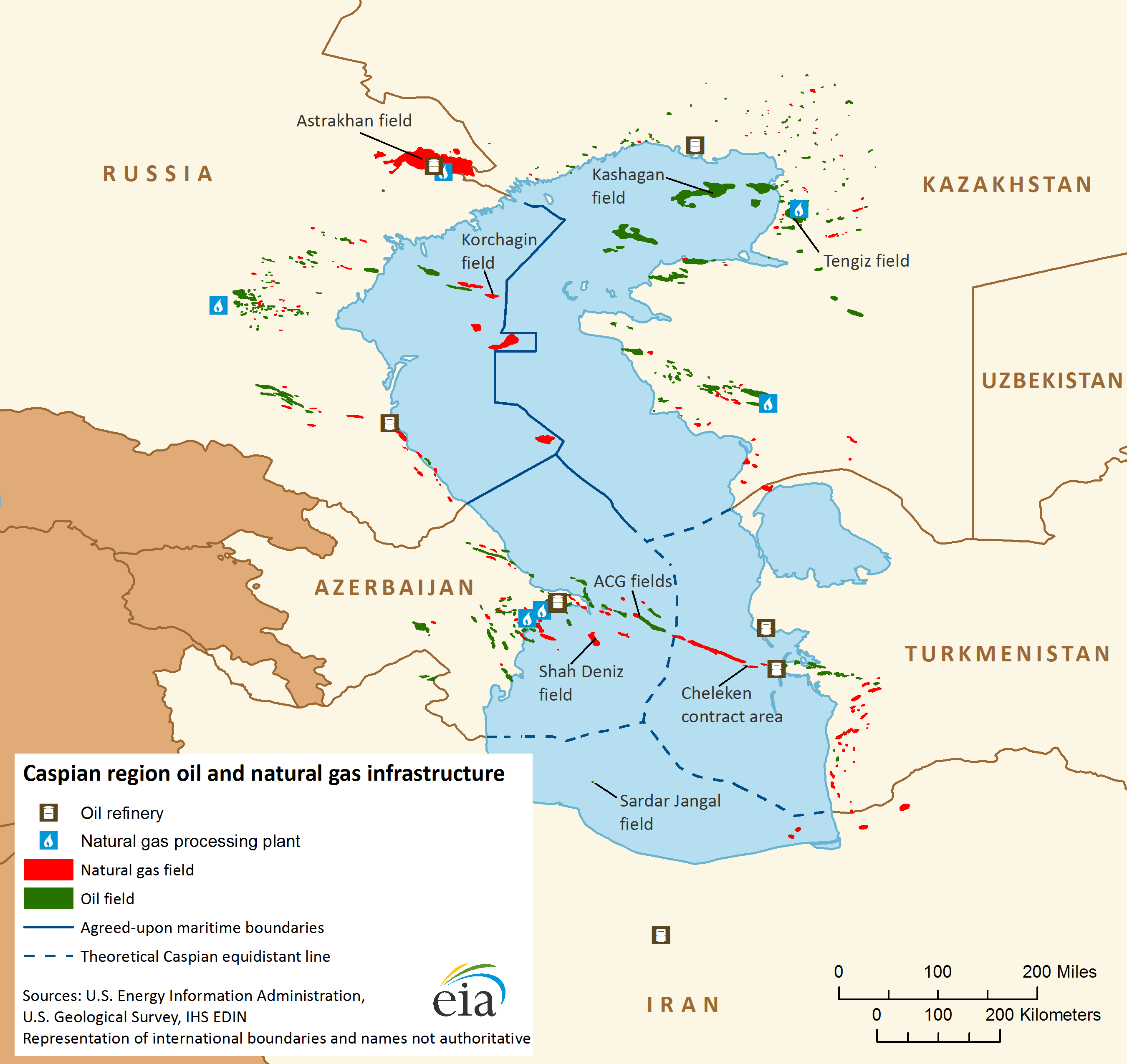 Overview of oil and natural gas in the Caspian Sea region.